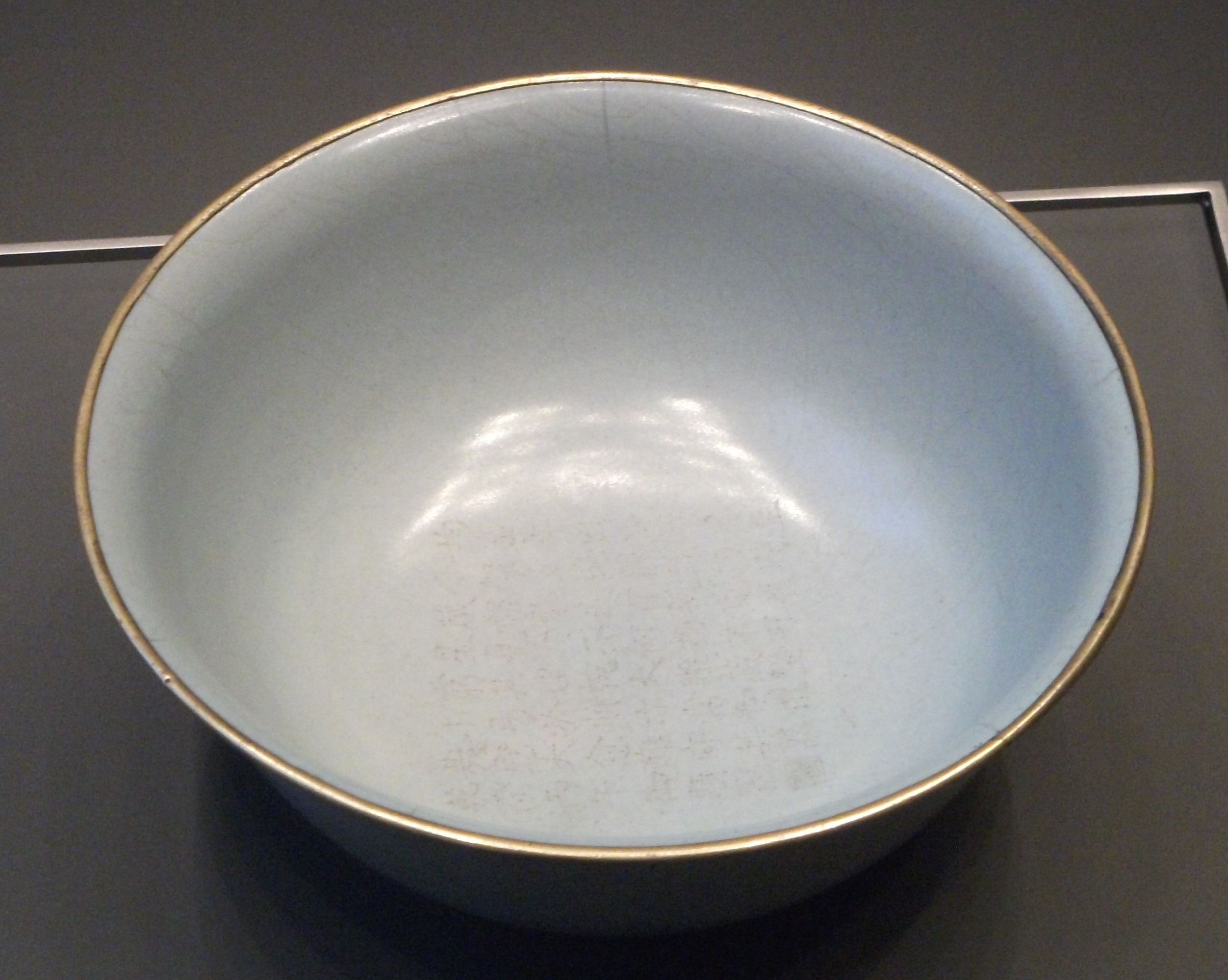 Ru ware, Percival David Collection, British Museum, Room 95